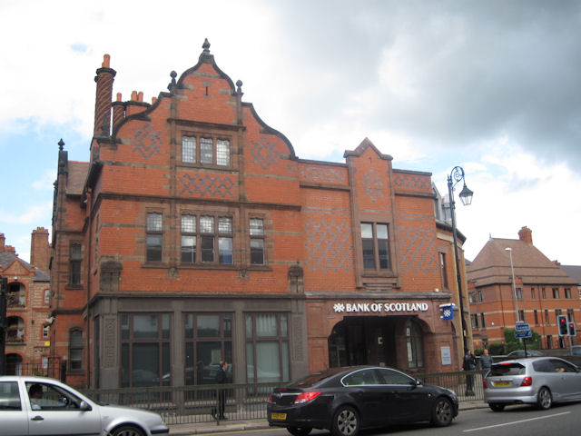 Bank of Scotland, 117 Foregate Street, and adjoining building in Chester